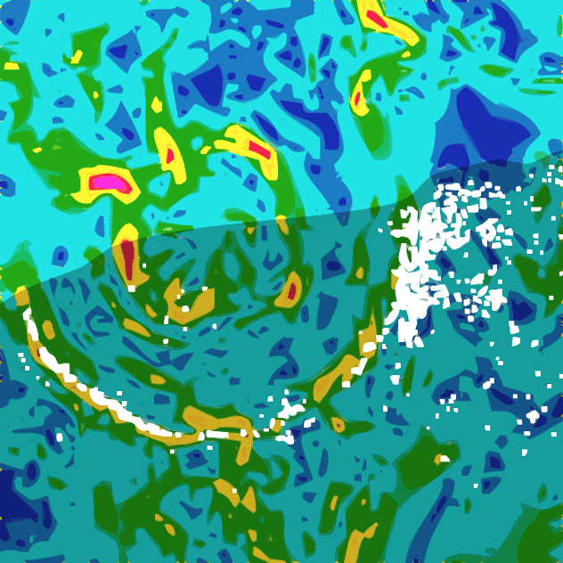 I created this image myself. As reference I used the map of the Chicxulub Crater area gravity anomaly that I found on this NASA page [1]